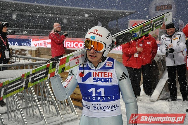 Assan Takhtakhunov during the World Cup competition in Zakopane in 2011.